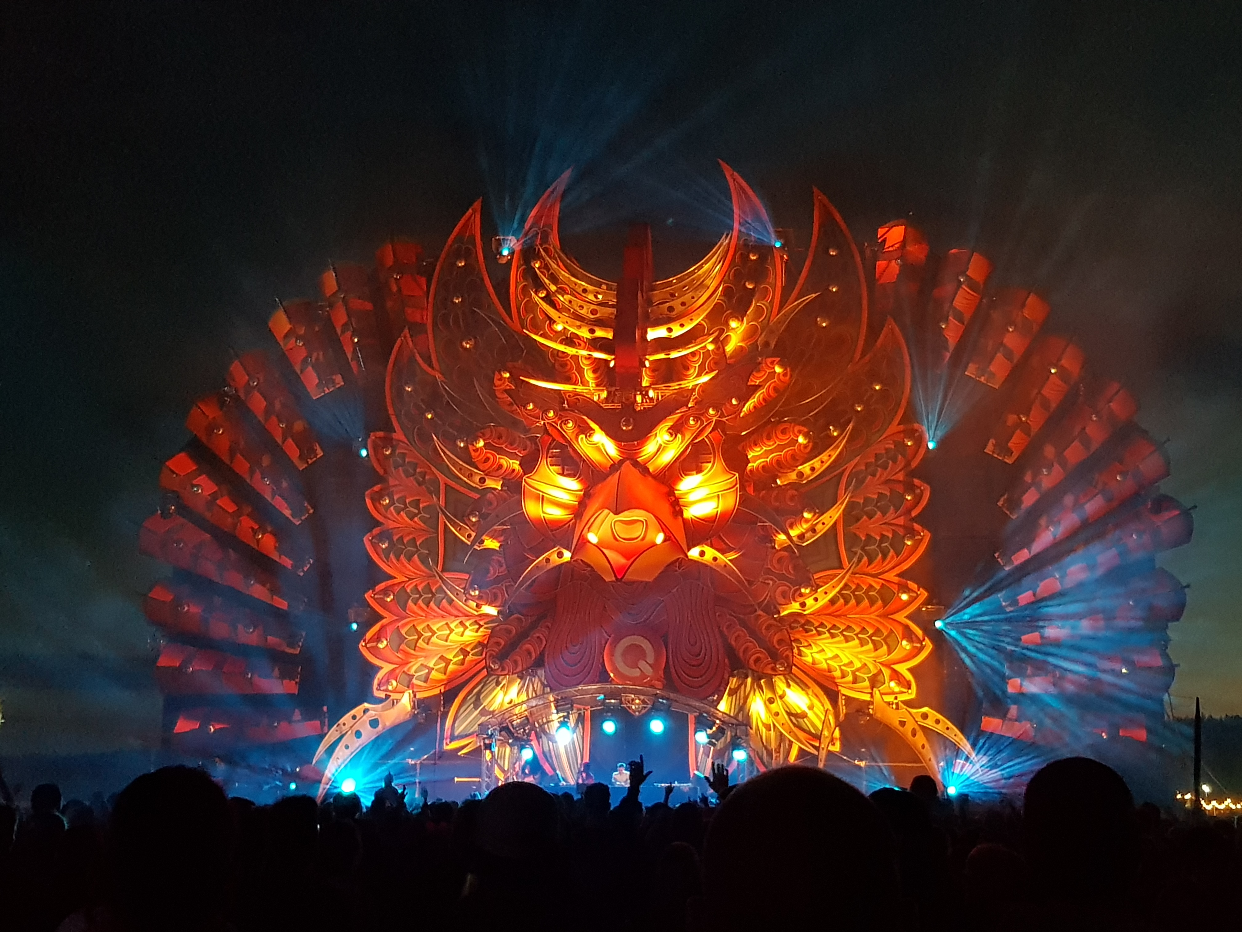 Q-Dance Stage Airbeat One 2018